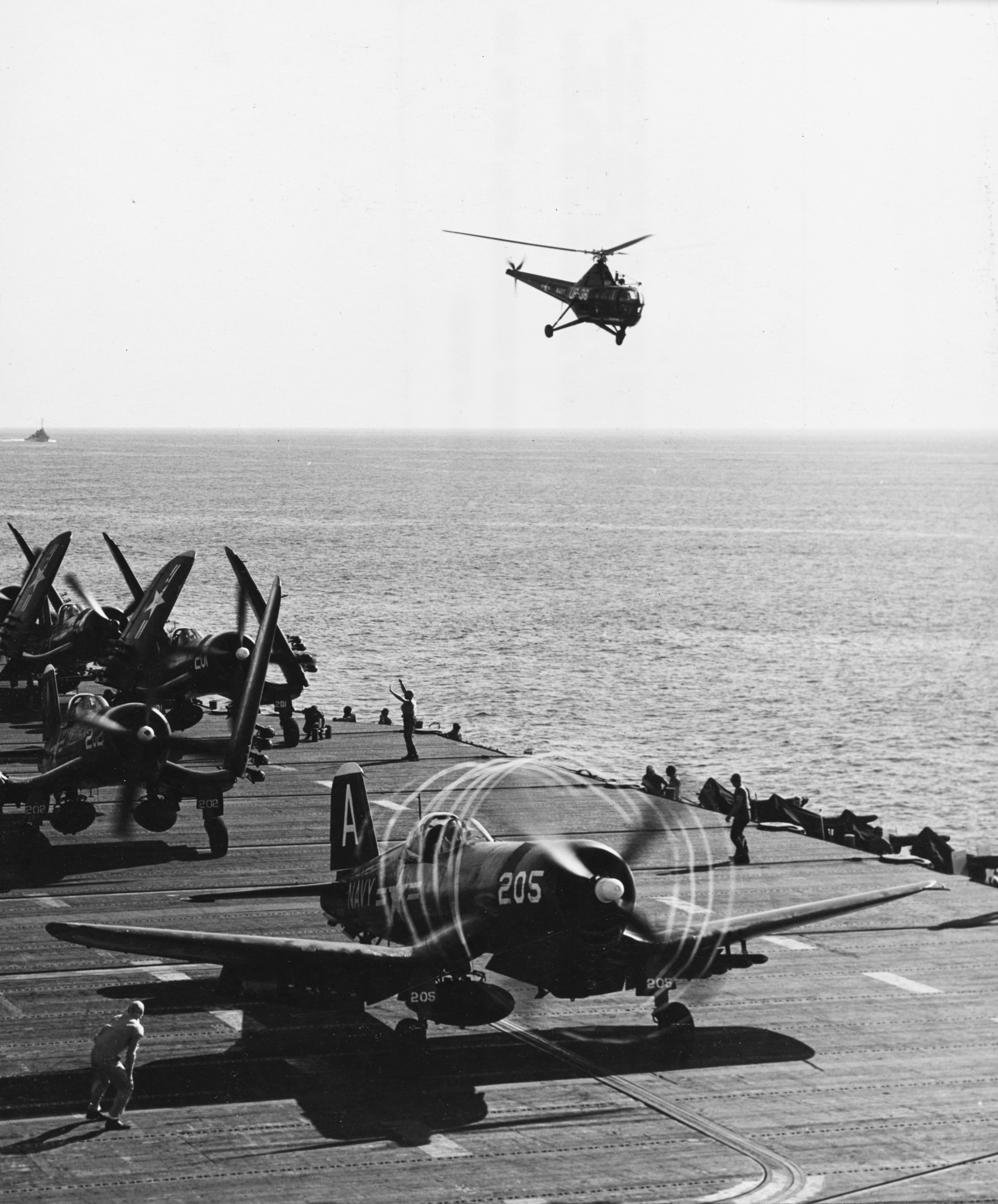 A U.S. Naval Air Reserve Vought F4U-4 Corsair of Fighter Squadron 884 (VF-884) "Bitter Birds" launching from the U.S. aircraft carrier USS Boxer (CV-21) off Korea. A Sikorsky HO3S-1 plane guard helicopter of Helicopter Utility Squadron 1 (HU-1) Det. F "Pacific Fleet Angels" is standing by. Both squadrons were assigned to Carrier Air Group 101 (CVG-101) aboard the Boxer for a deployment to Korea from 2 March to 21 October 1951. Original description: "Deck Launch -- Visible rings of vapor encircle a Corsair fighter as it turns up prior to being launched from the USS Boxer for a strike against communist targets in Korea. Hovering to the stern of the aircraft carrier, the every-present helicopter plane guard stands by to assist if any emergency arises."